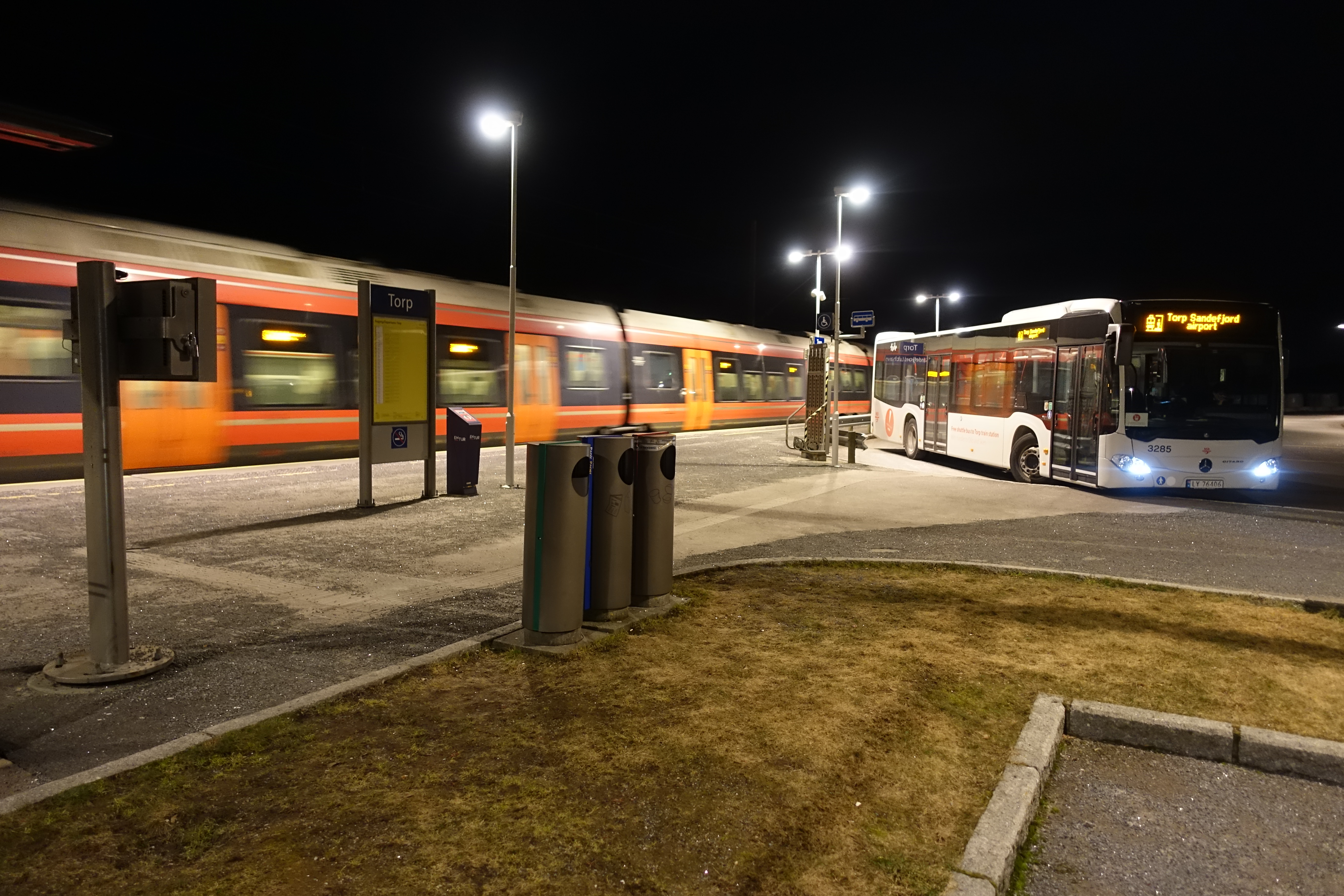 NSB train and shuttle bus at train stop Torp Sandefjord Lufthavn/Airport. Platform, sign, train by night. Photo taken on 2019-03-20.